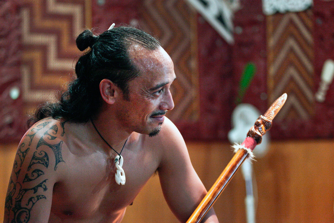 New Zealand: Maori Culture 002